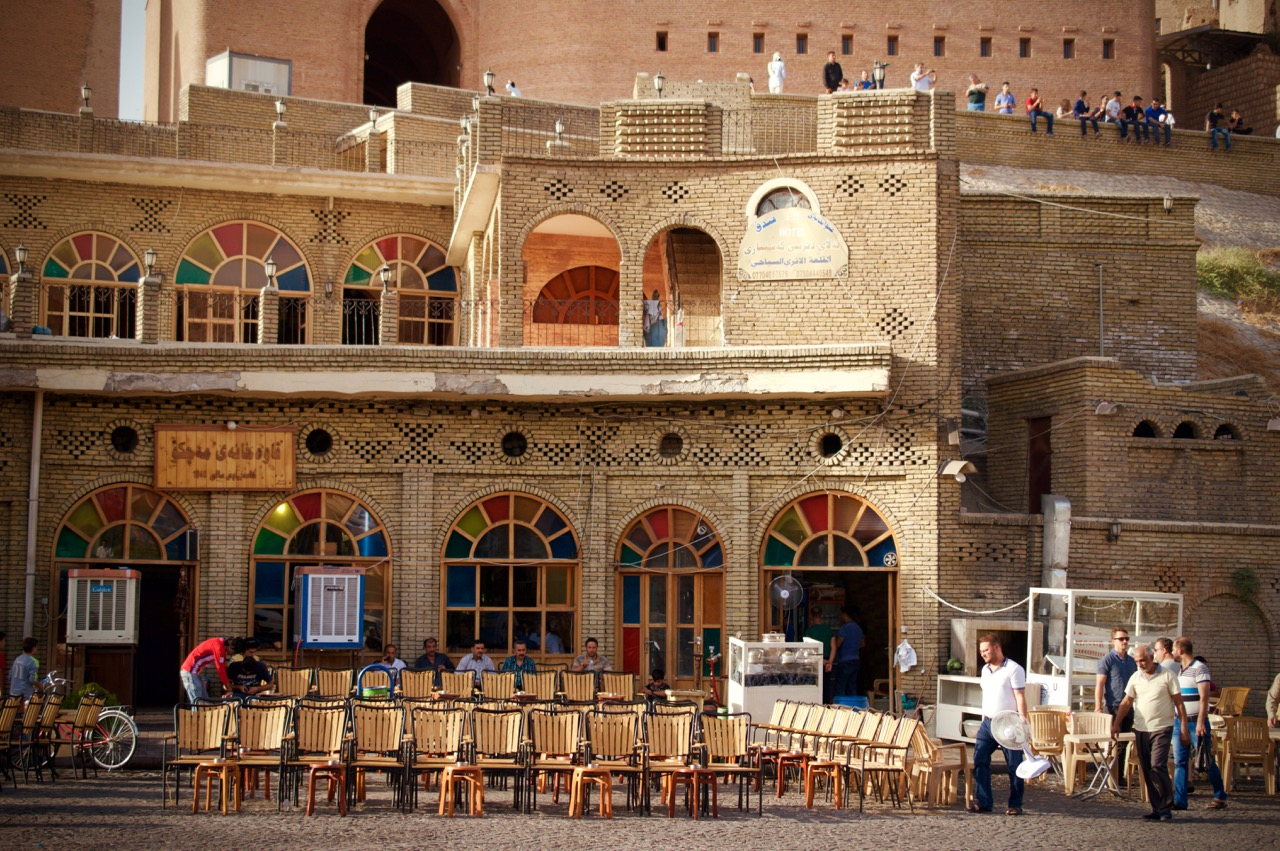 Machiko Teashop at the base of the Hawler (Erbil) Citadel, in Kurdistan Regional Government